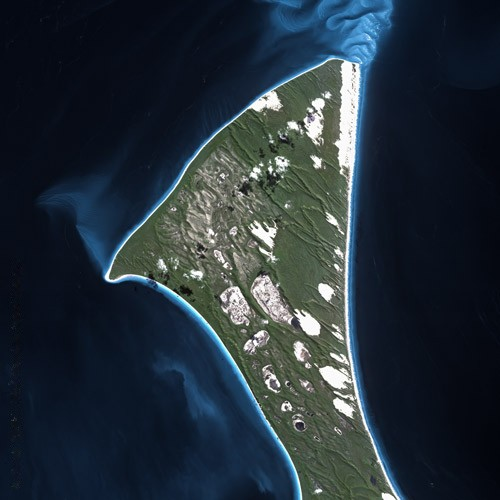 Sandy Cape on Fraser Island by SPOT Satellite